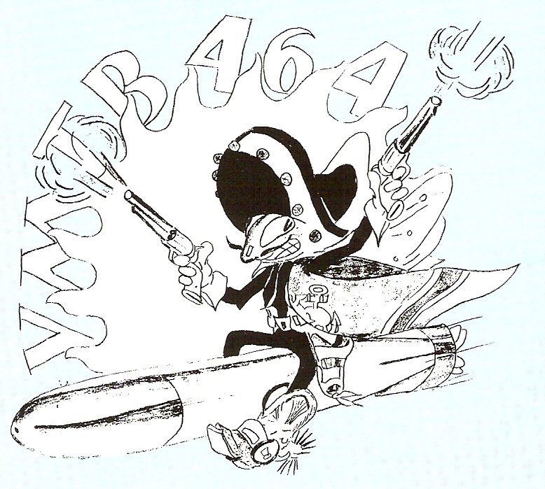 Scanned from *Crowder, Michael J. (2000). United States Marine Corps Aviation Squadron Lineage, Insignia & History - Volume One - The Fighter Squadrons. Turner Publishing Company. ISBN 1-56311-926-9. Squadron logo for VMTB-464